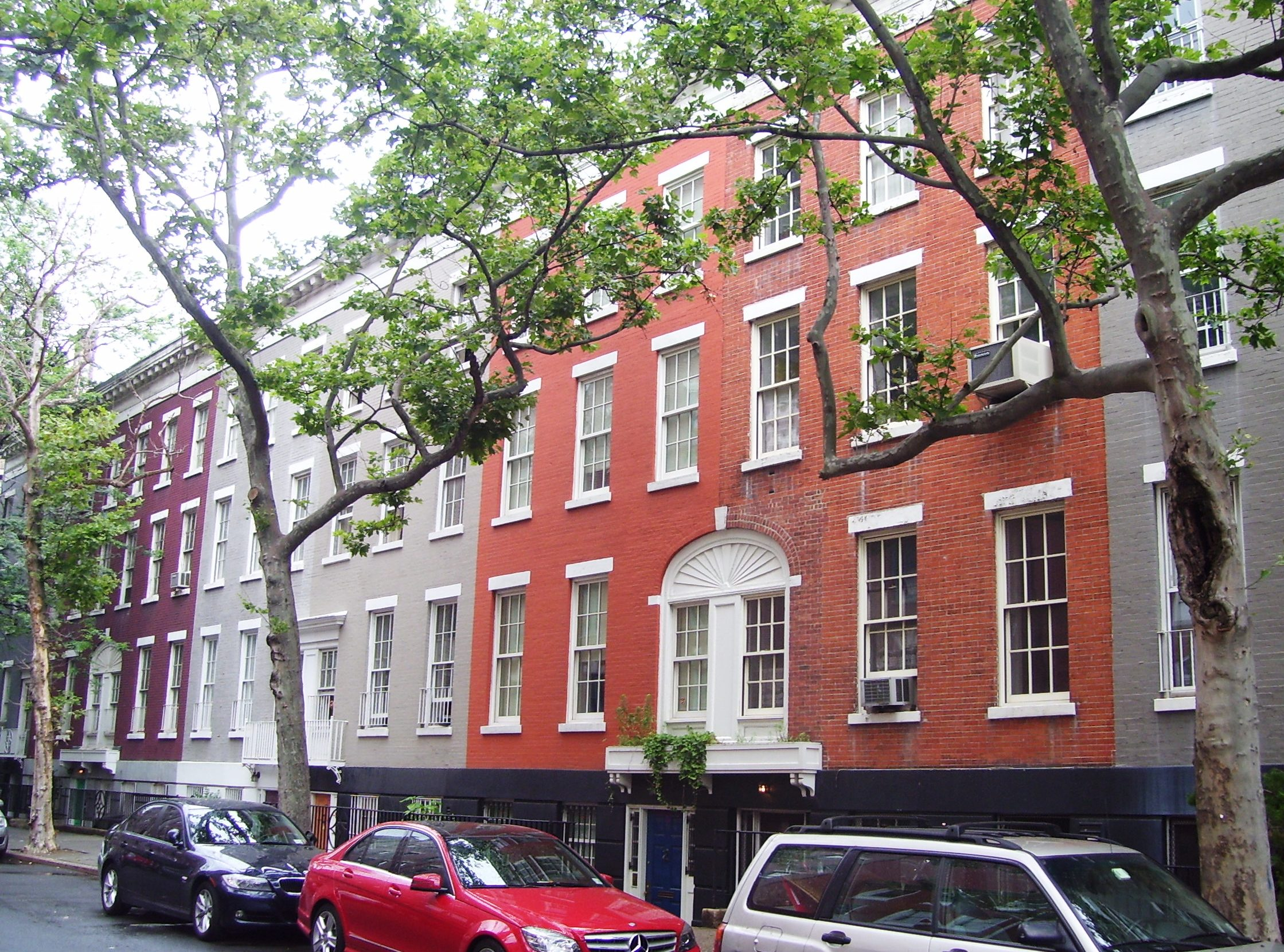 82 (right)- 96 (left) MacDougal Street, between Houston and Bleecker Streets in the South Village neighborhood of Manhattan, New York City, is part of the MacDougal-Sullivan Gardens Historic District which was designated a New York City landmark in 1967 and added to the National Register of Historic Places in 1983. The district includes 74-96 MacDougal Street and 170-188 Sullivan Street. The 22 houses were built between 1844 (MacDougal Street) and 1850 (Sullivan Street) in the Greek Revival style, but became dilapidated until they were bought by William Sloane Coffin in 1920 and throughly renovated by Francis Y. Joannes and Maxwell Hyde in Colonial Revival style, with the rear yards combined to make a common garden. (Sources: Guide to NYC Landmarks (4th ed.) and NYCLPC MacDougal-Sullivan Gardens Historic District Designation Report")